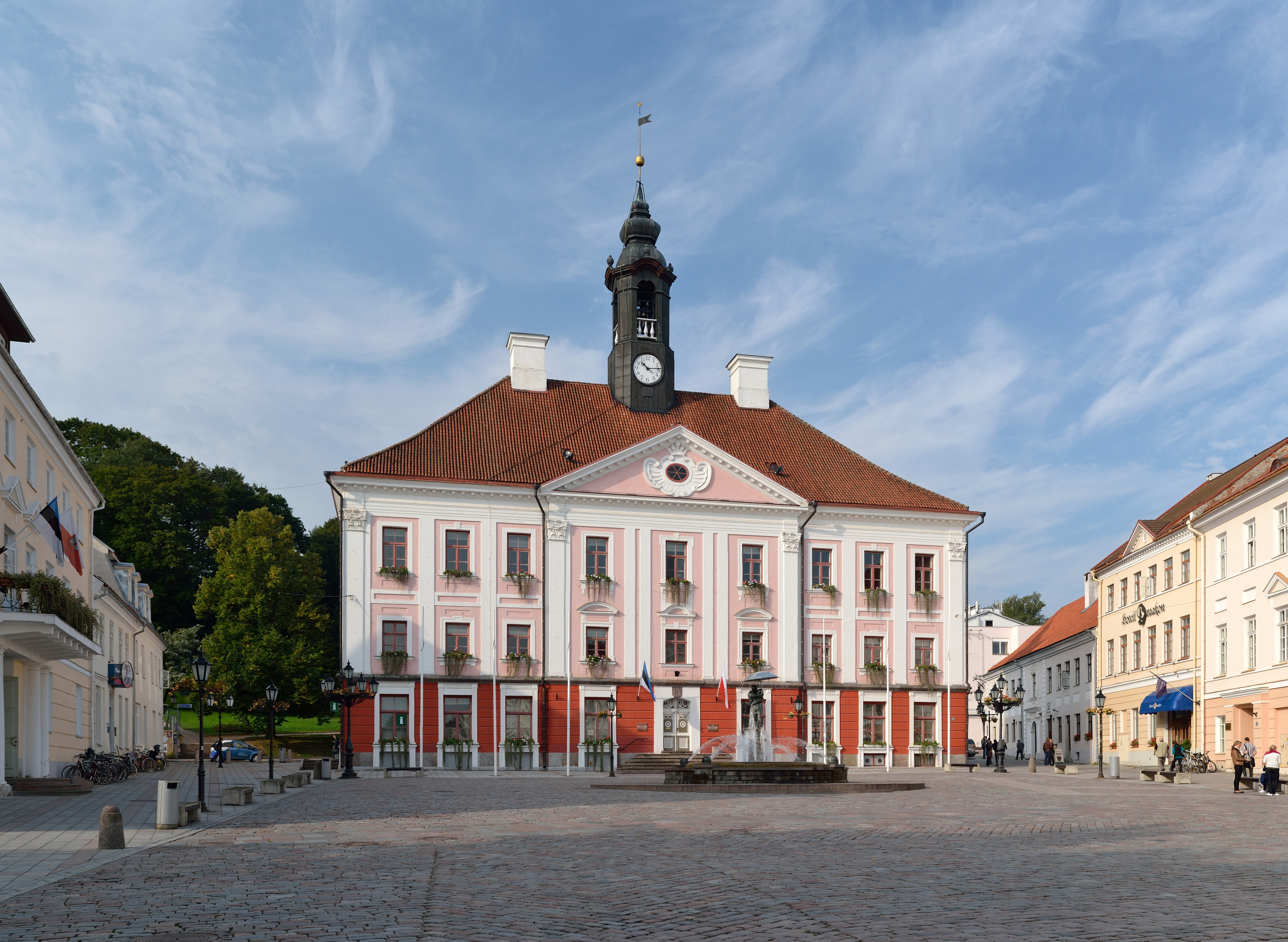 Tartu Town Hall, built in 1782–1789 (cropped from